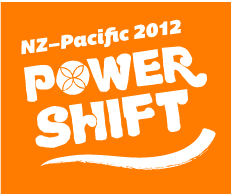 One of the logos for Power Shift NZ-Pacific 2012.